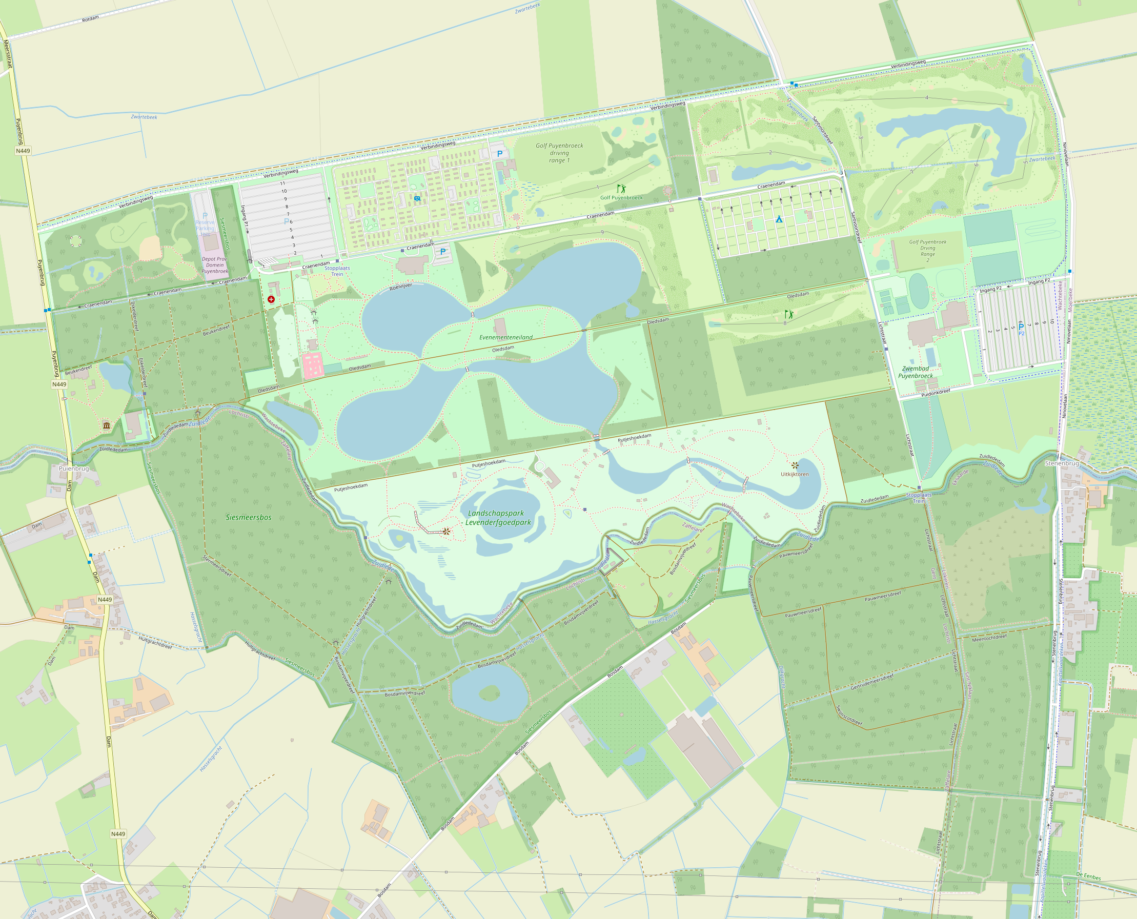 Puyenbroeck, Wachtebeke, Belgium